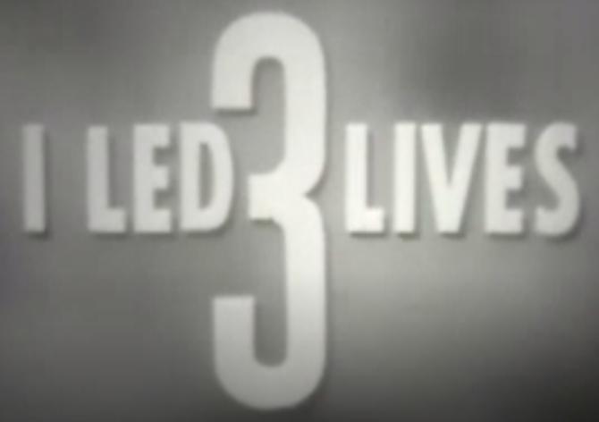 Opening title screen-shot of "I Led 3 Lives" (also known as I Led Three Lives), an American drama series which was syndicated by Ziv Television Programs from October 1, 1953, to January 1, 1956.